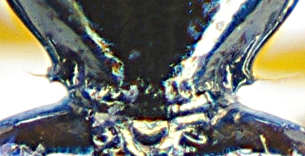 Bembidion quadrimaculatum hind part of pronotum, from Southern Germany, near Tuttlingen, 700m high, at wet piece of rotten wood at 2011-03-09